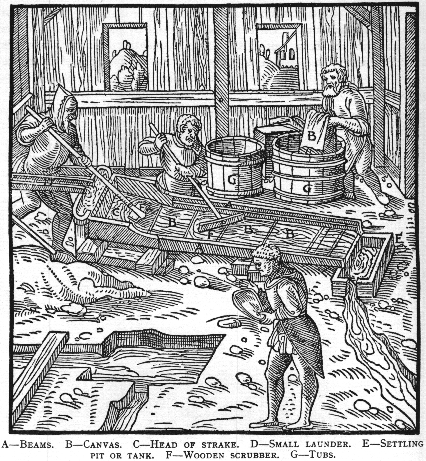 Woodcut illustration from De re metallica by Georgius Agricola. This is a 300dpi scan from the 1950 Dover edition of the 1913 Hoover translation of the 1556 reference. The Dover edition has slightly smaller size prints than the Hoover (which is a rare book). The woodcuts were recreated for the 1913 printing. Filenames (except for the title page) indicate the chapter (2, 3, 5, etc.) followed by the sequential number of the illustration.